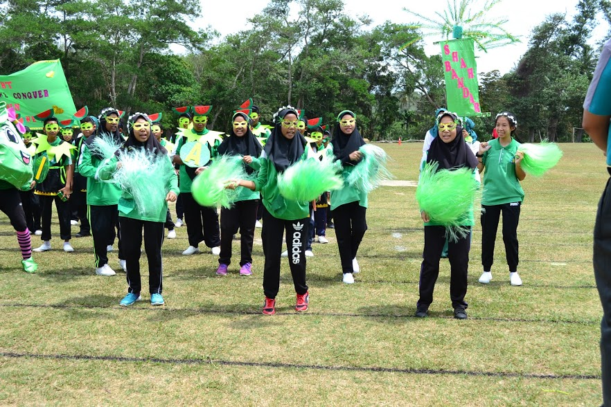 SUKAN 10